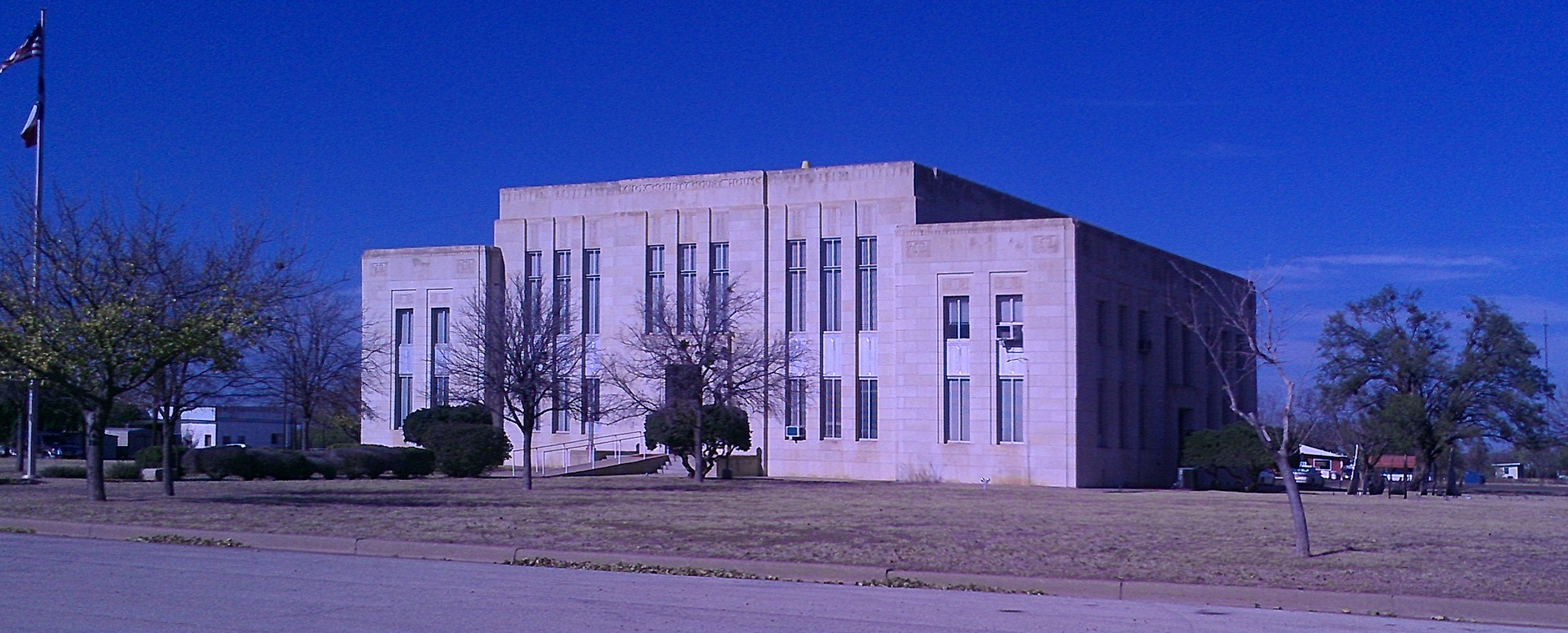 Benjamin Texas Courthouse.